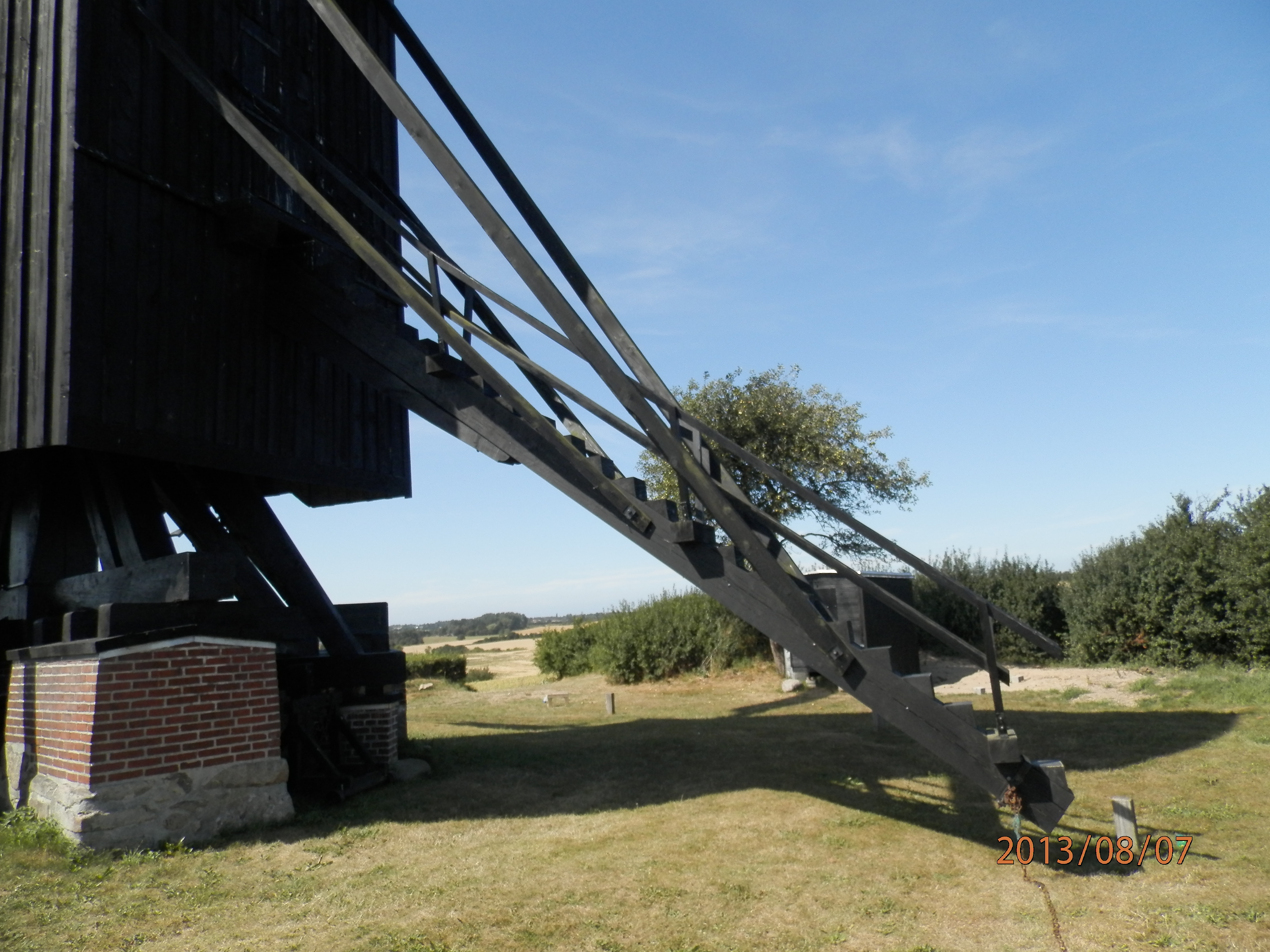 old Danish windmill in Gribskov Denmark